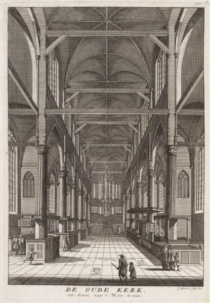 Engraving by Jan Goeree (1670-1731) of the interior of the Oude Kerk in Amsterdam at about 1700 showing the main organ of Niehoff/van Keulen/Jansz that was played by Sweelinck.